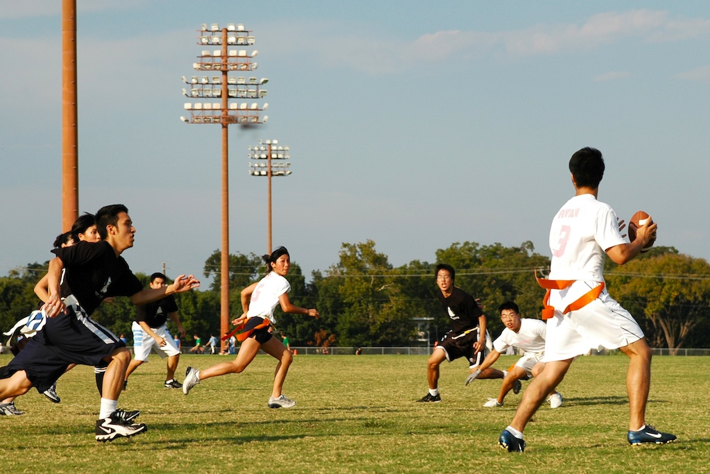 An Intramural game of Flag Football at the University of Texas at Austin